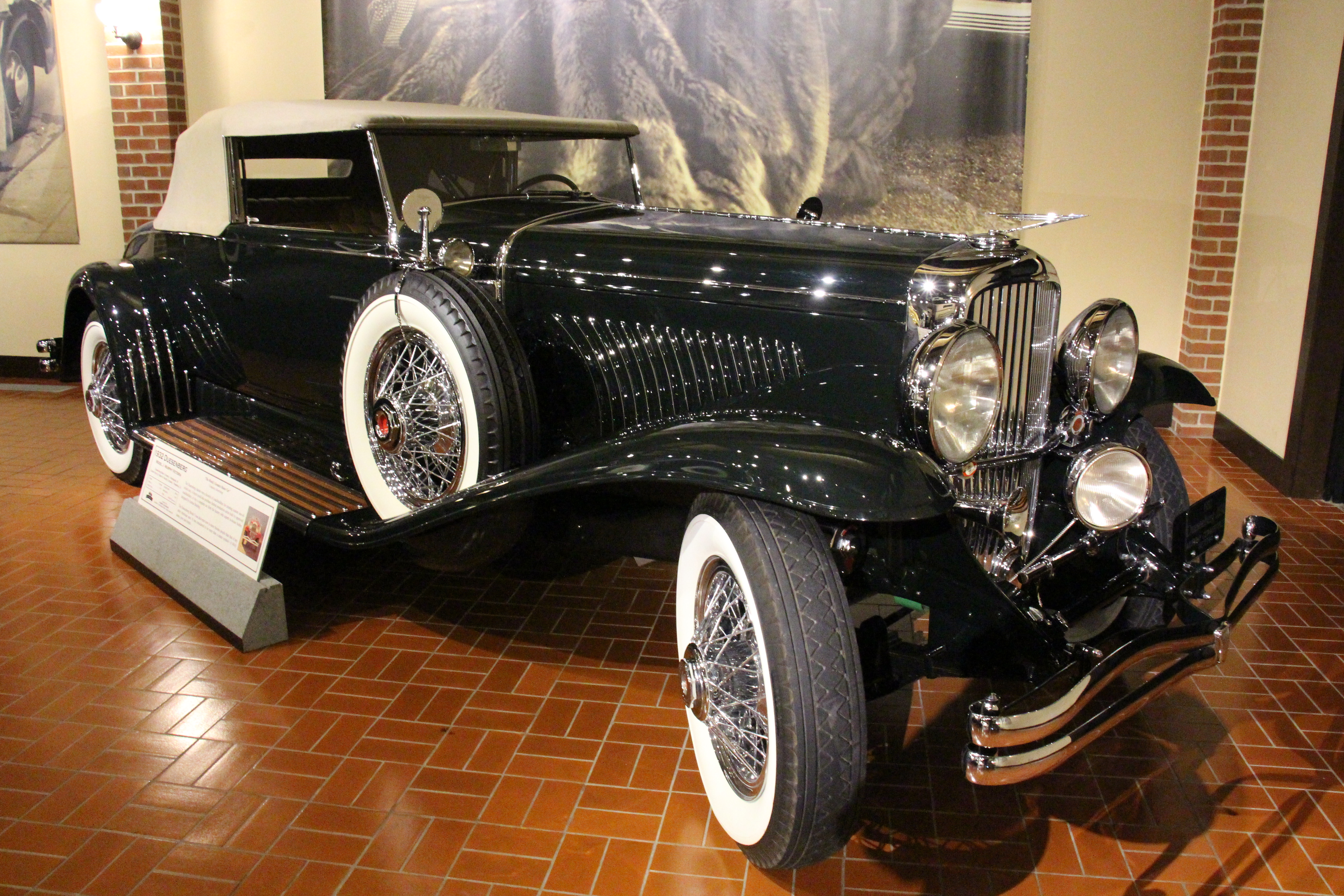 E.L.Cord, who also owned Auburn bought Duesenberg in 1926. The Model J Duesenberg was a luxury car built from 1928-37. More famous people bought the Model J than that of any other American car. They had a 420 cu in straight 8 engine. The Model SJ was the supercharged version. The Model JN had a different body, set on the chassis rails for a lower look. It also had skirted fenders and bullet-shaped taillights. The Duesenberg chassis was also a favorite of coachbuilders for creating custom one off kind of cars like this one. The body on this car was built by Walter M Murphy Company, a one off car Engine; 265hp straight 8. Photographed at the Gilmore Museum, Michigan